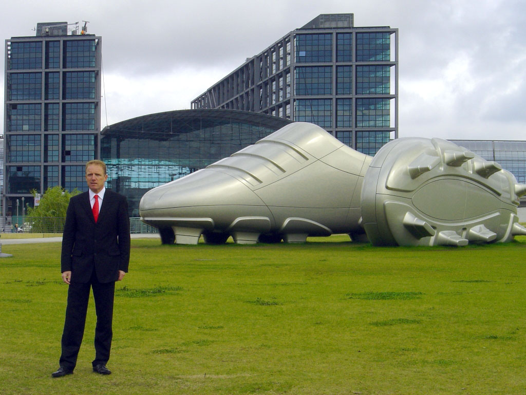 Mike de Vries, CEO of the Initiative "Germany - Land of Ideas" posing for the Financial Times Germany in front of a sculpture in the "Walk of Ideas"